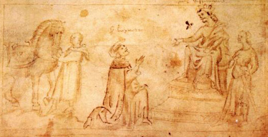 Alfonso X of Castile